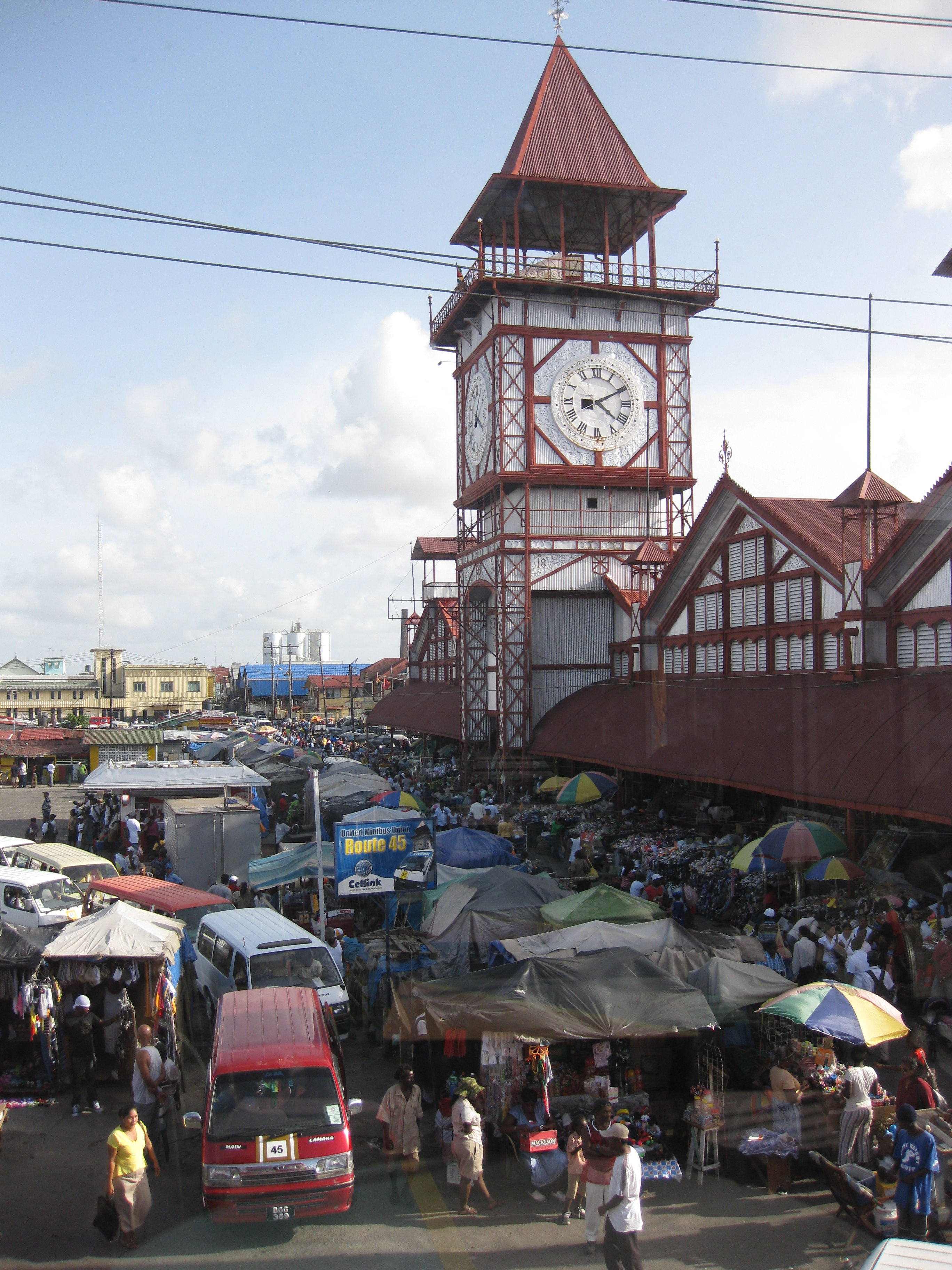 Photograph of Stabroek Market, Guyana